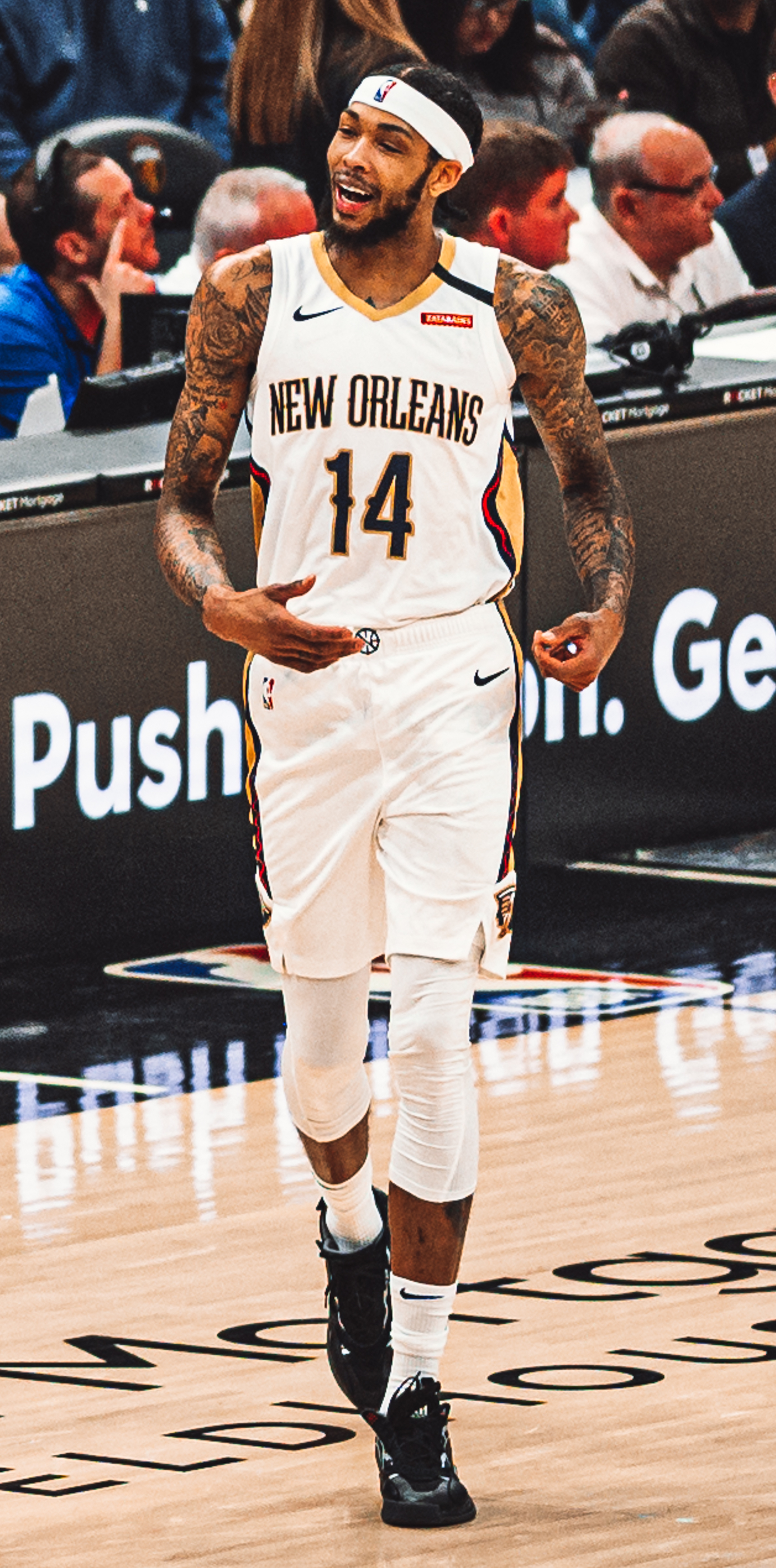 Zion Williamson and Brandon Ingram